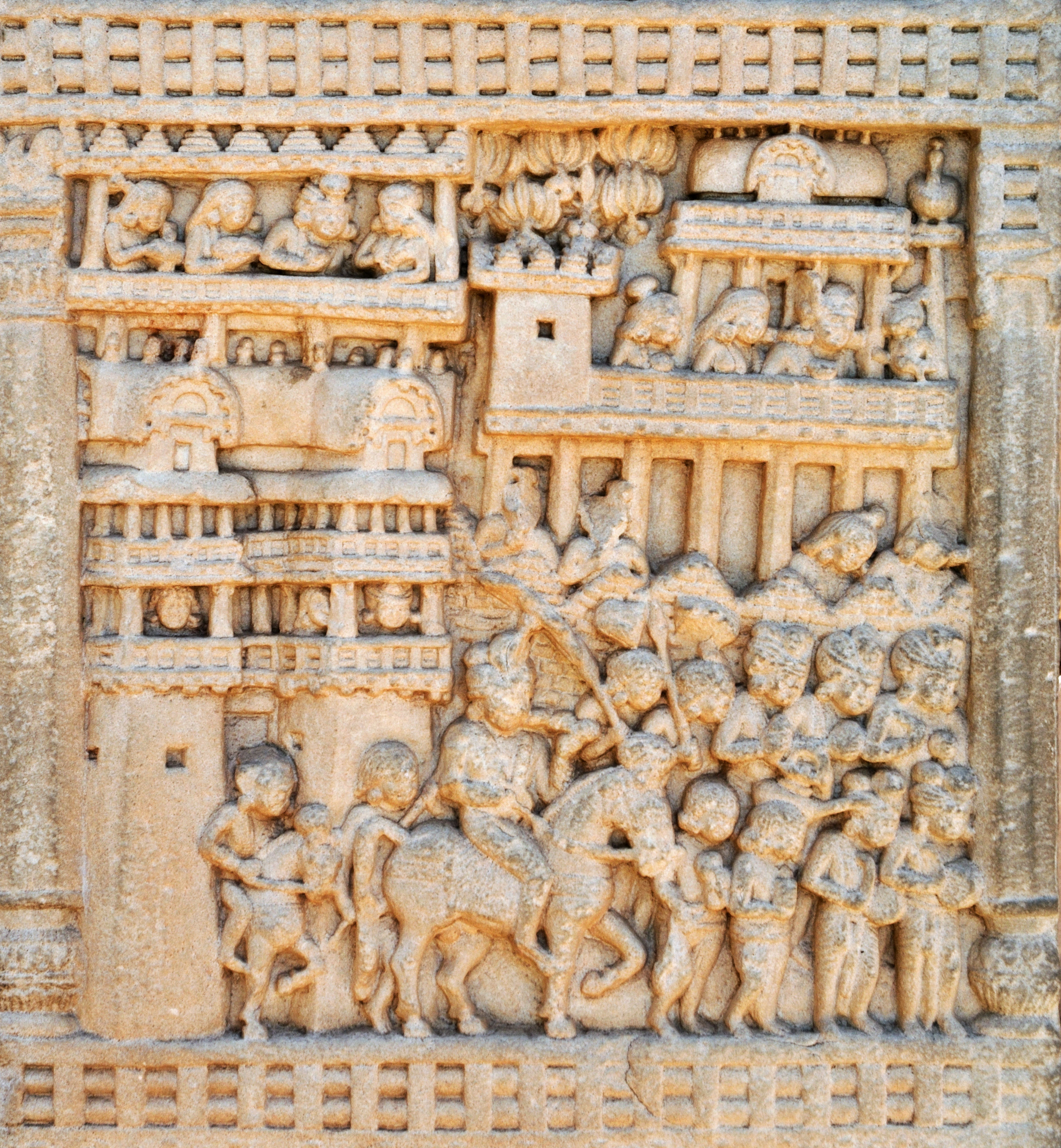 Procession of Prasenajit of Kosala leaving Sravasti to meet the Buddha, Sanchi Stupa 1 Northern gateway